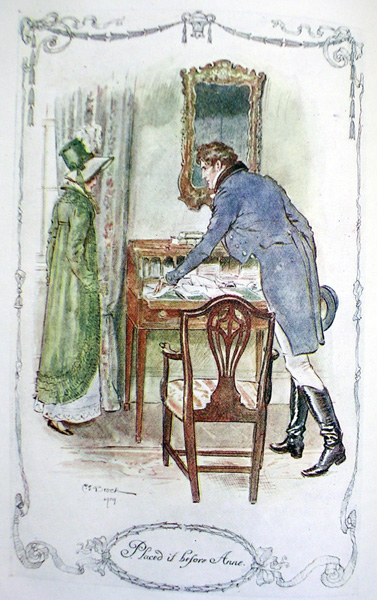 Persuasion, ch 23. Frederick come back to place his letter before Anne.